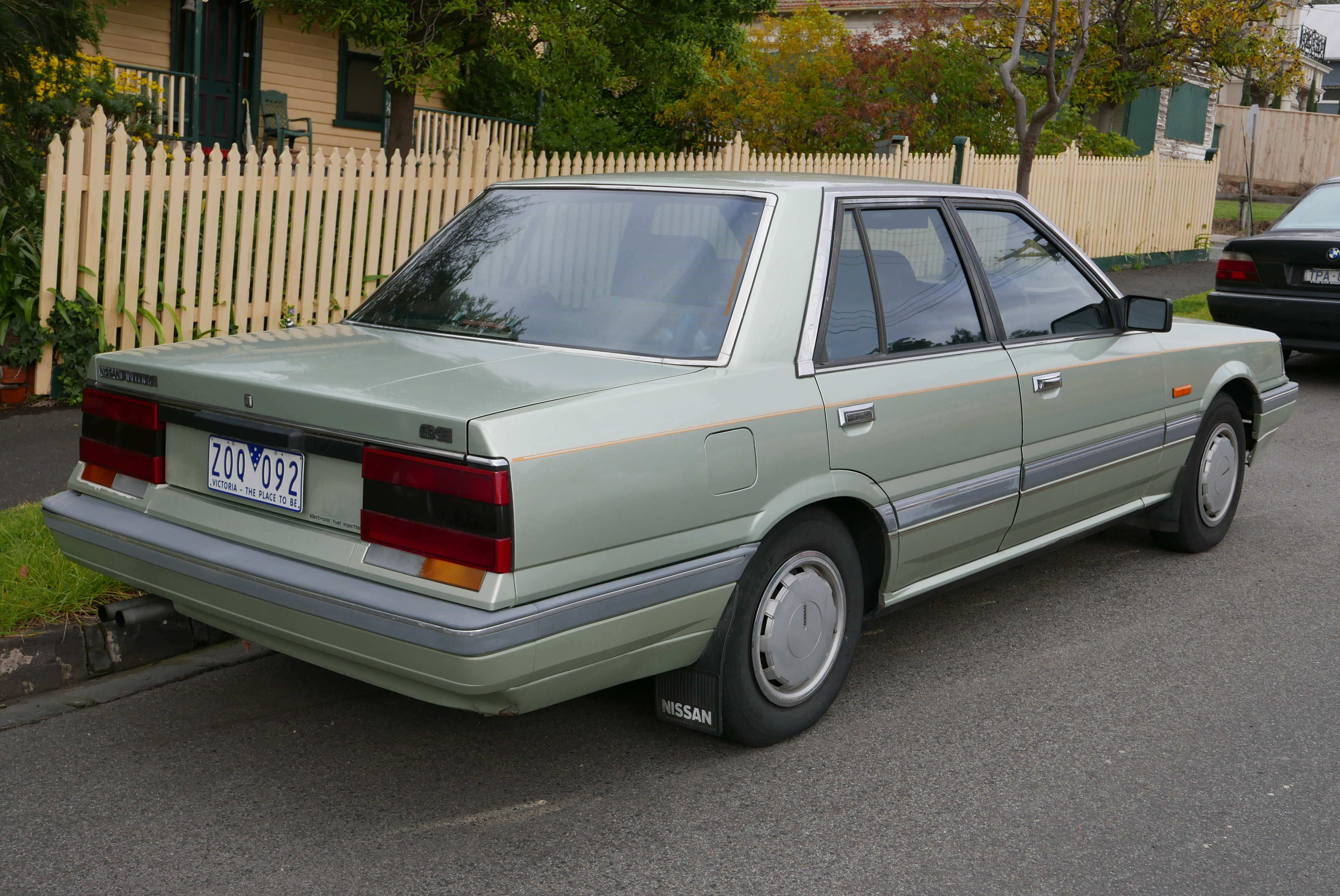 1986 Nissan Pintara (R31) GXE sedan. Photographed in Balwyn, Victoria, Australia. Vehicle registration enquiry results Jurisdiction Victoria Registration ZOQ092 Chassis code Not available Engine code CA2020587 Compliance date Not available Year of manufacture 1986